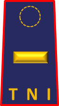 Second Lieutenant rank insignia that used on daily uniforms of Indonesian Air Force (holder of command)